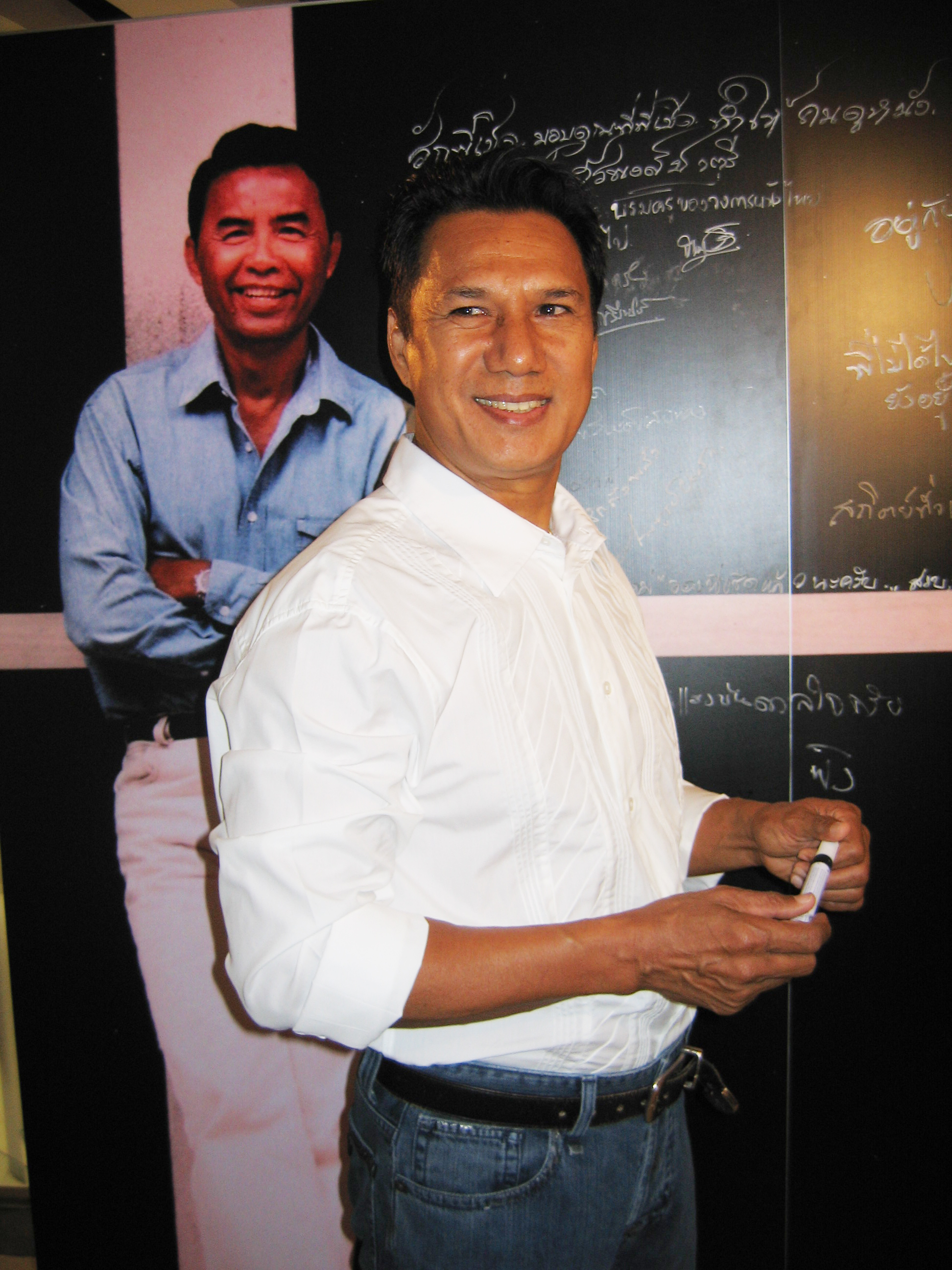 Actor Sorapong Chatree at the opening reception for the Cherd Songsri Retrospective at Grand EGV Siam Discovery in Bangkok.